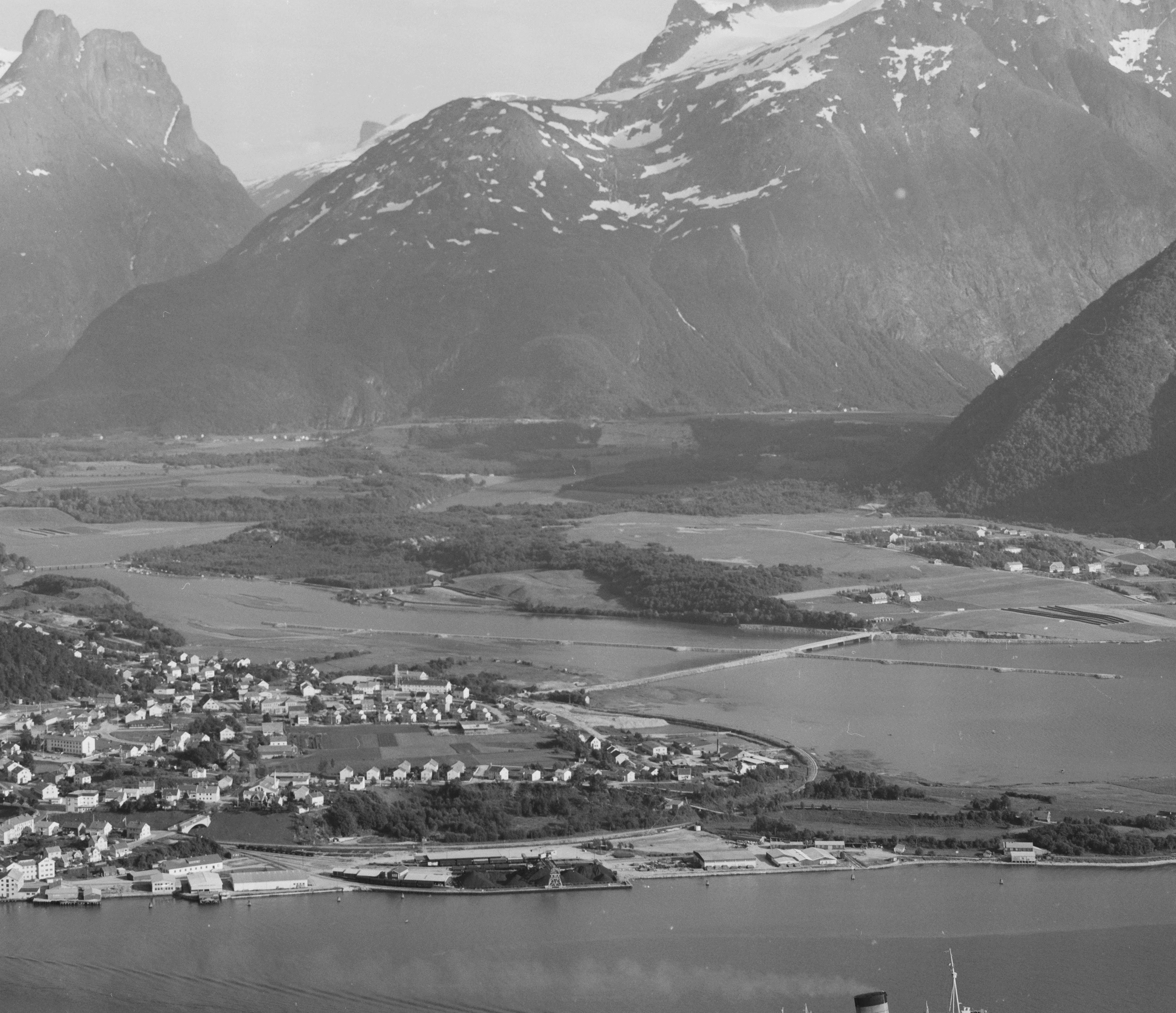 Bildet er hentet fra Nasjonalbibliotekets bildesamling. Anmerkninger til bildet var: fotograf: Å.M. Åndalsnes, Rauma, Møre og Romsdal (beskåret original)